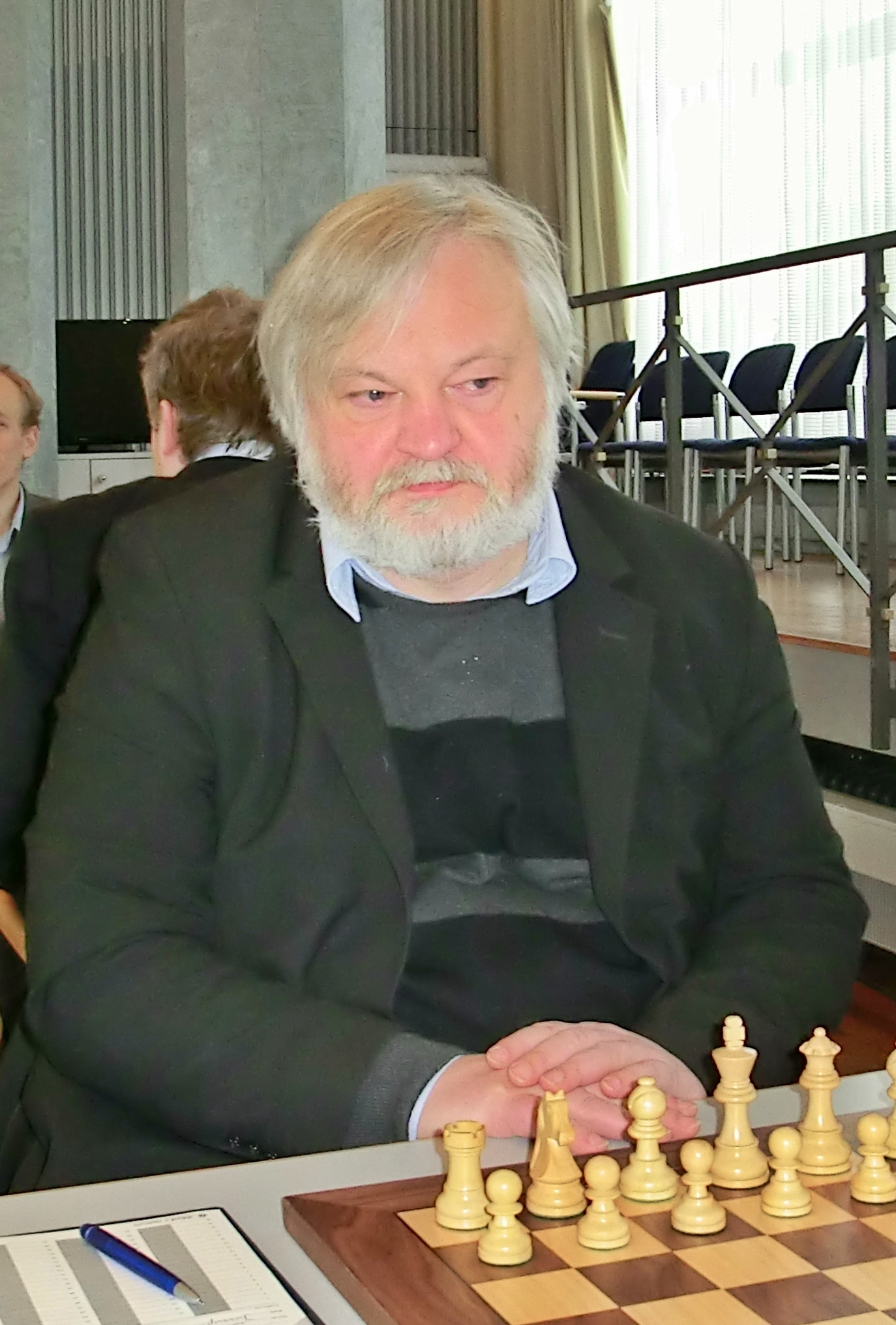 Artur Jussupow, chess grandmaster from Germany